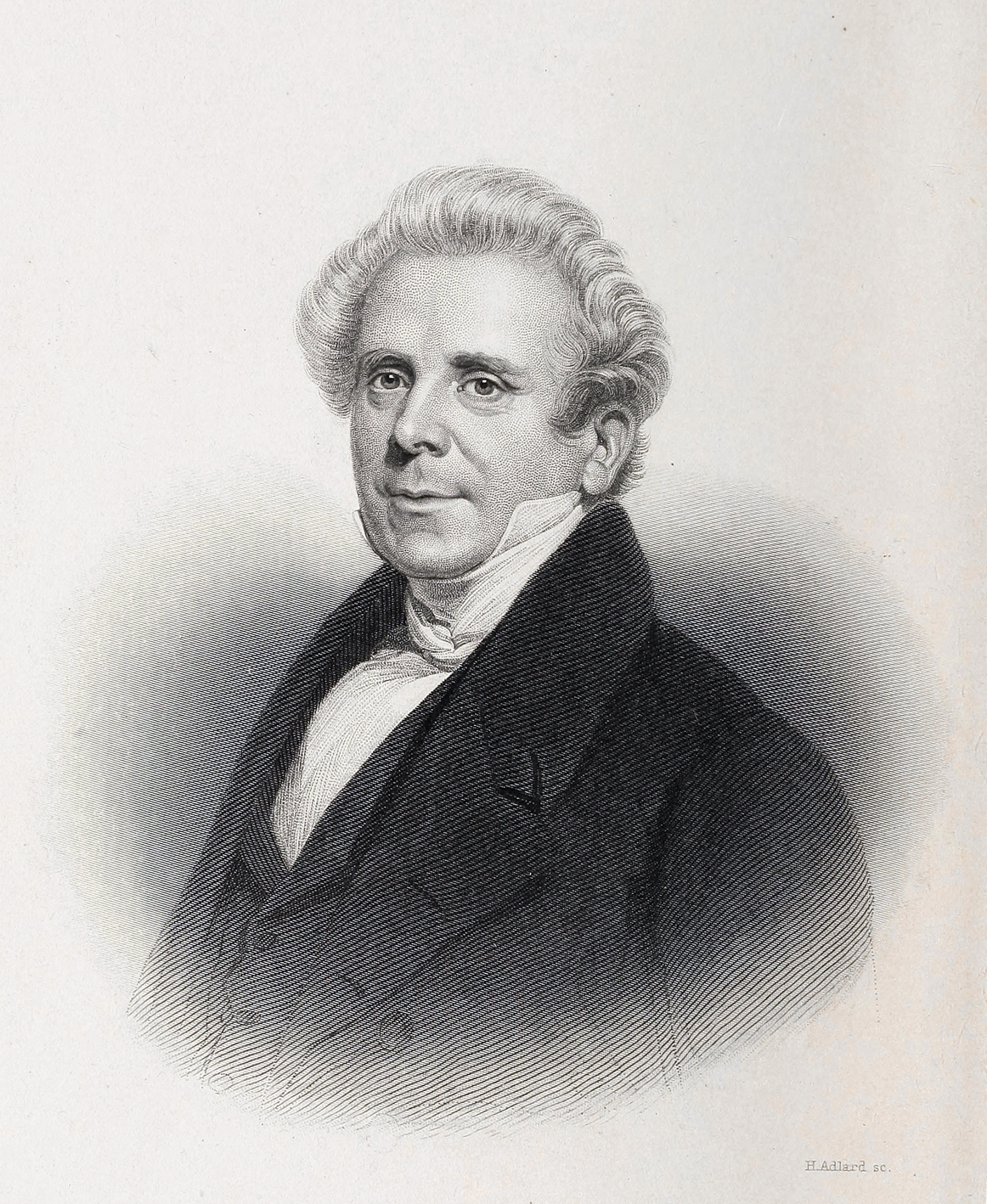 Rev. Ebenezer Henderson (1784 – 1858), agent of the British and foreign Bible Society